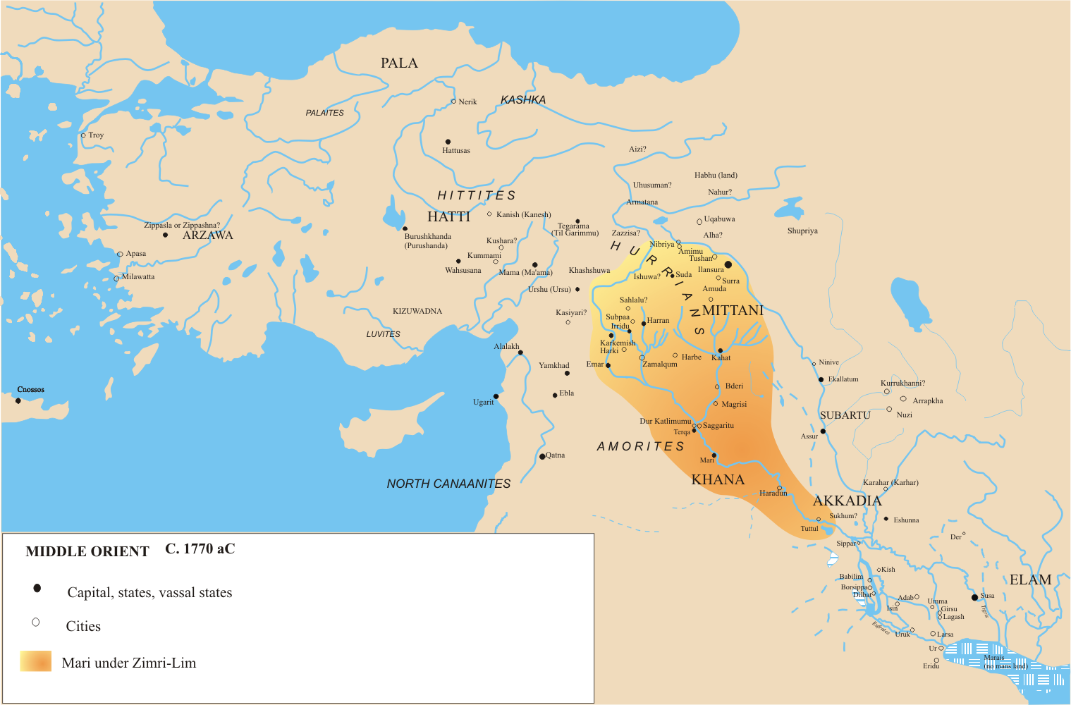 Domains of Zimrilim